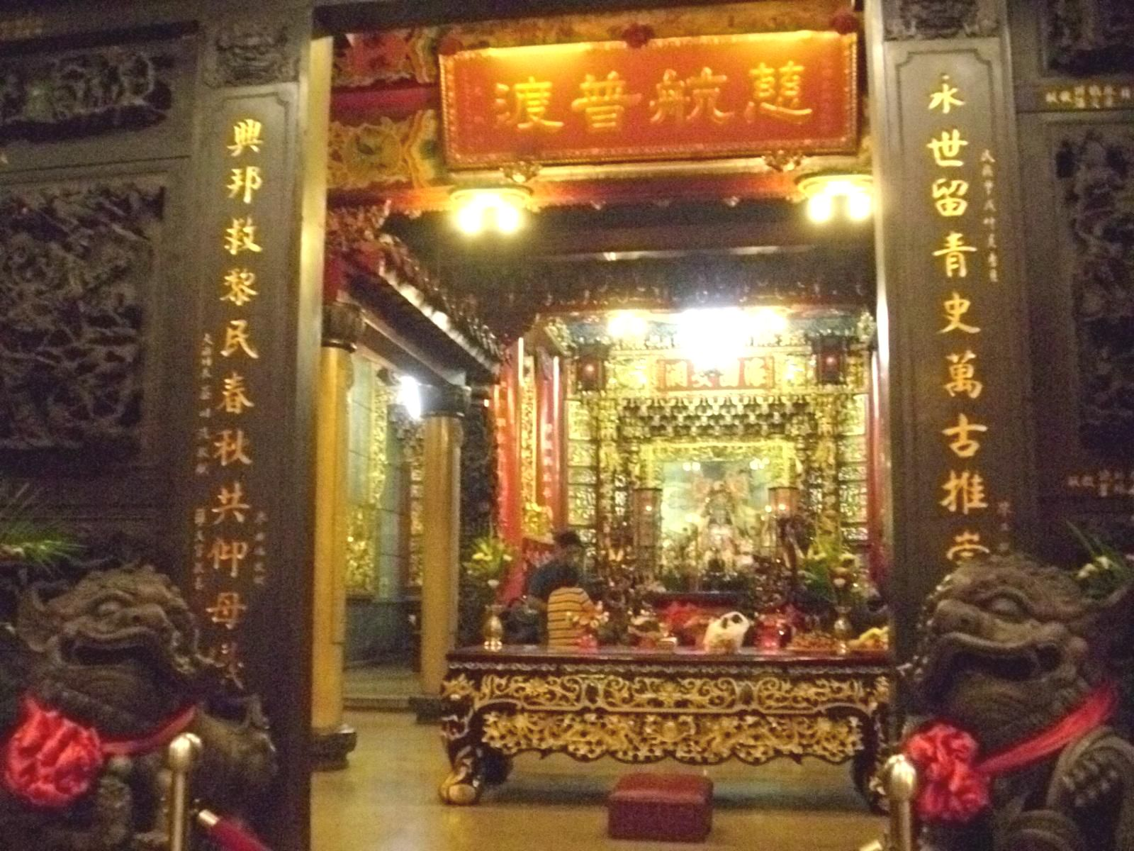 Yonĝing Temple, Daya District, Taichung.中文（台灣）: 位在台中大雅。